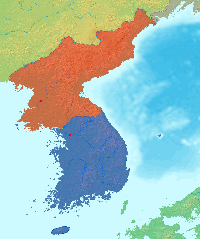 Map of the devided Korea without labels